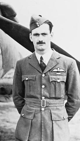 Wilfred Clouston flew with No. 19 during the Battles of France and Britain. Portrait cropped from a photograph taken by an official Royal Air Force photographer - original at